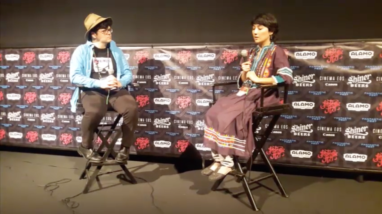 Q & A with Maha Al-Saati at Fantastic Fest, 26 Sep 2017.